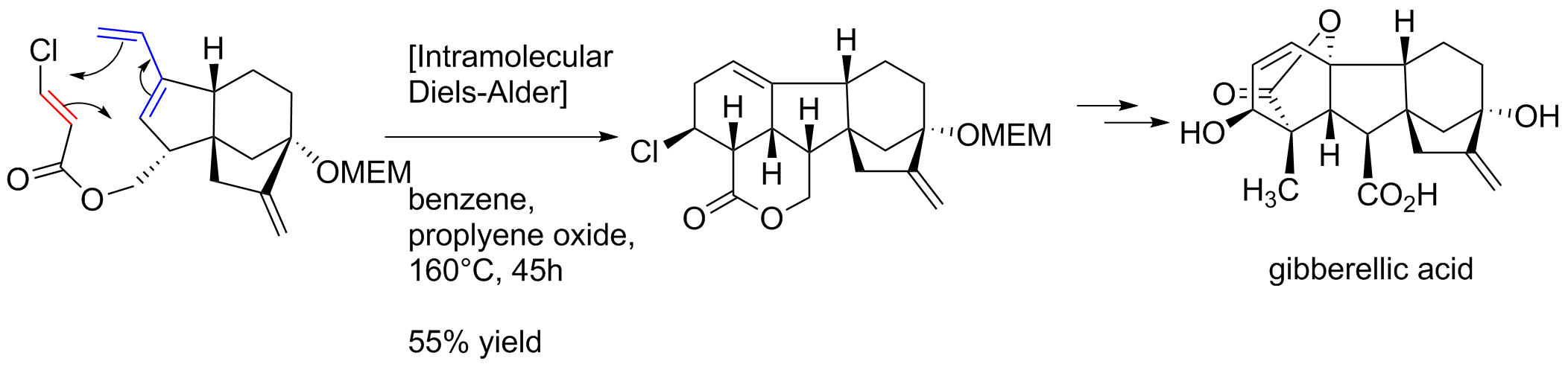 Scheme containing steps to gibberellic acid carried out by E.J. Corey (1978), containing an intramolecular Diels-Alder reaction (diene is blue, dienophile is red)